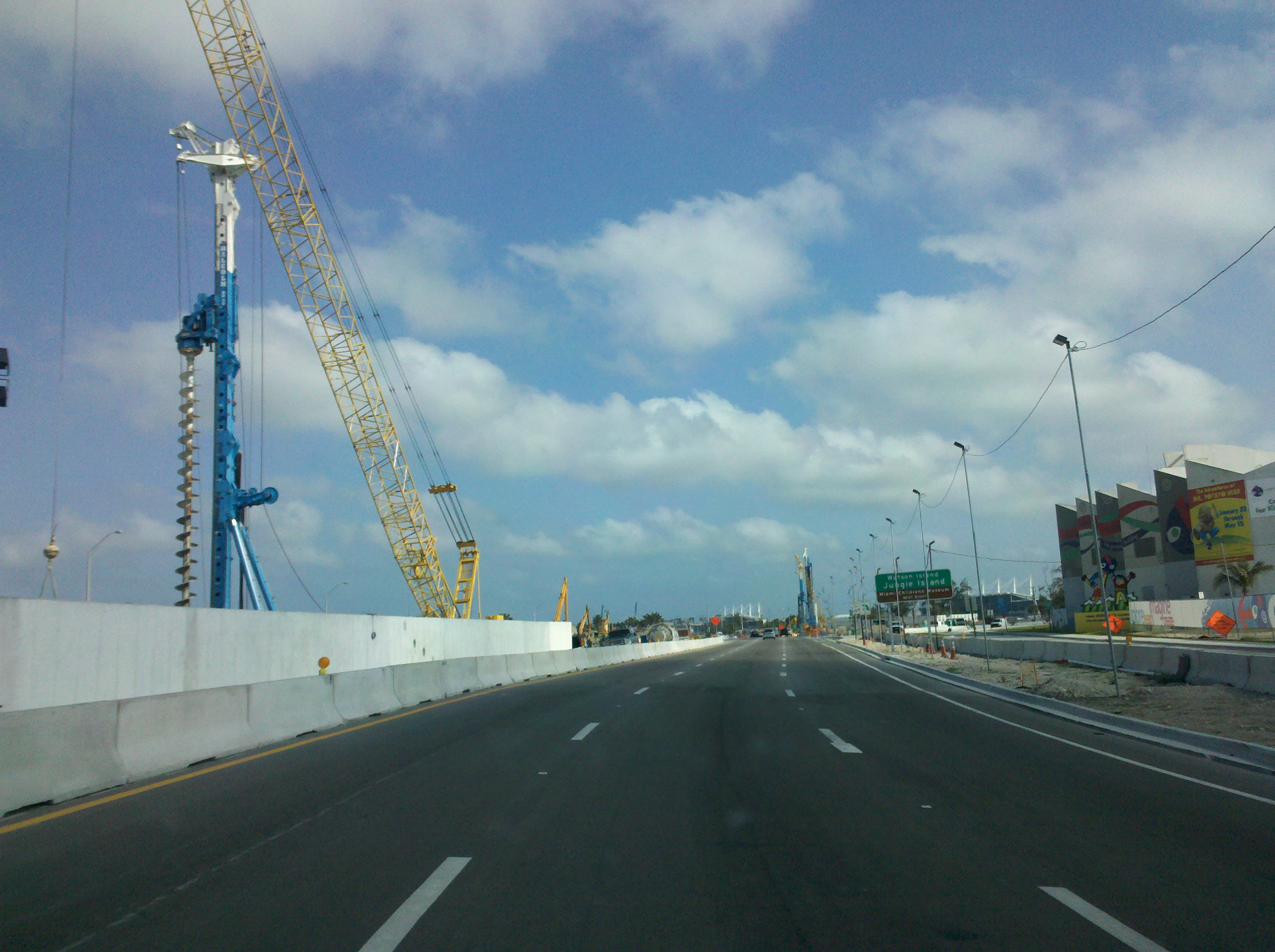 Construction of the Port of Miami Tunnel from I-395.